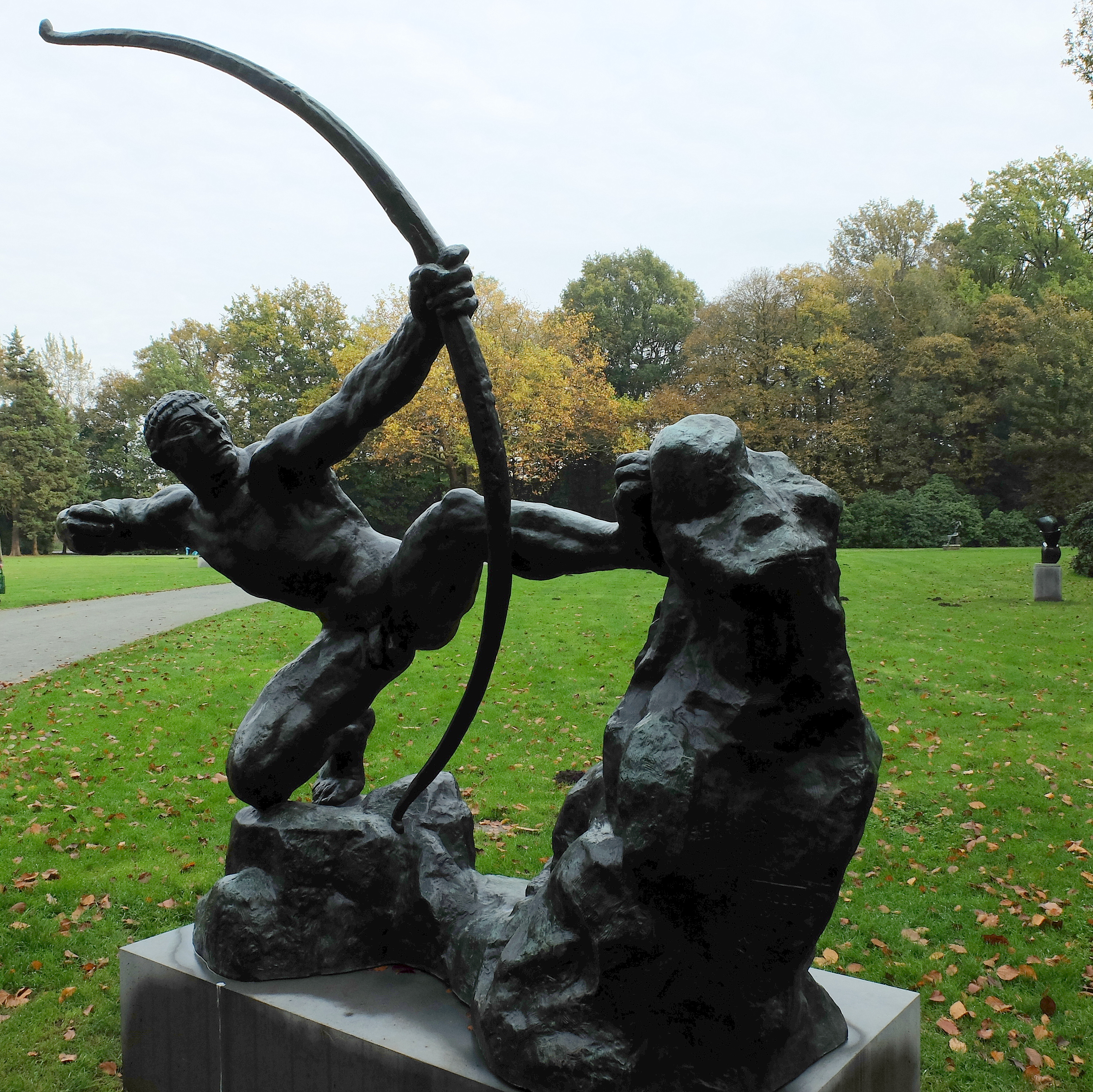 Antoine Bourdelle: Heracles, 1909